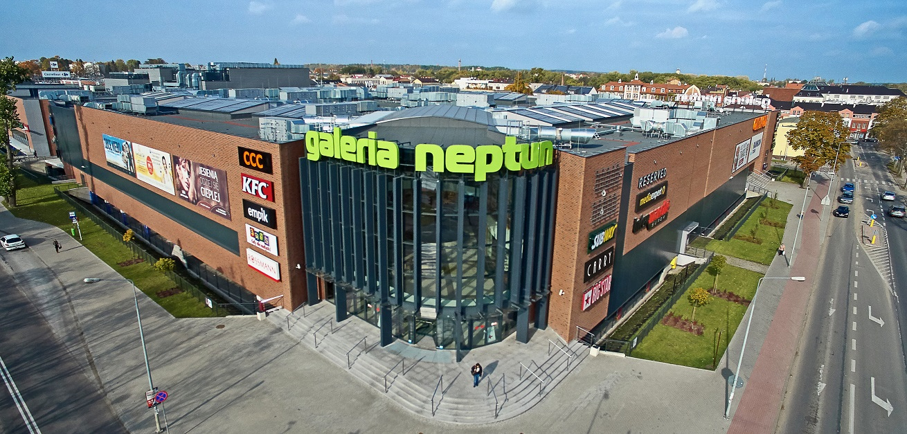 Wejście główne do centrum handlowego. Skrzyżowanie ul. Pomorskiej i al. Jana Pawła II